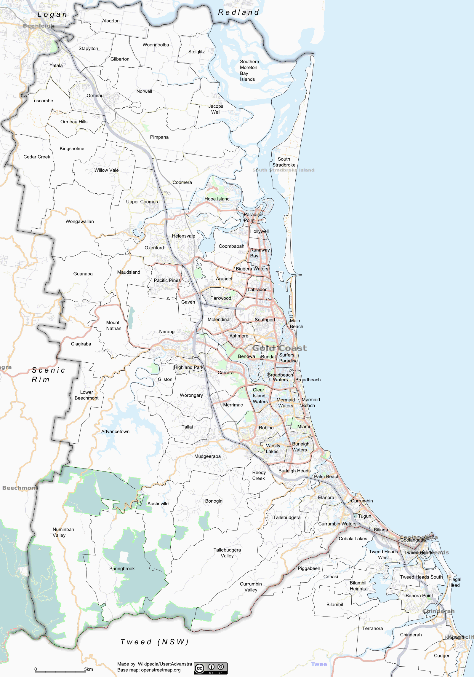 Map highlighting suburbs and boundaries of the Gold Coast urban area (Gold Coast City and part of Tweed Shire) This map may be incomplete, and may contain errors. Don't rely solely on it for navigation.